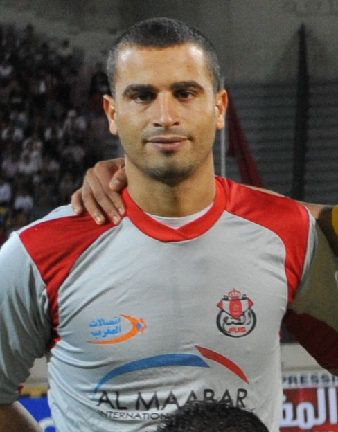 Issam Badda, September 2011